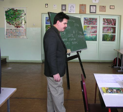 Kevin Hannan during the lecture in one of the Polish school